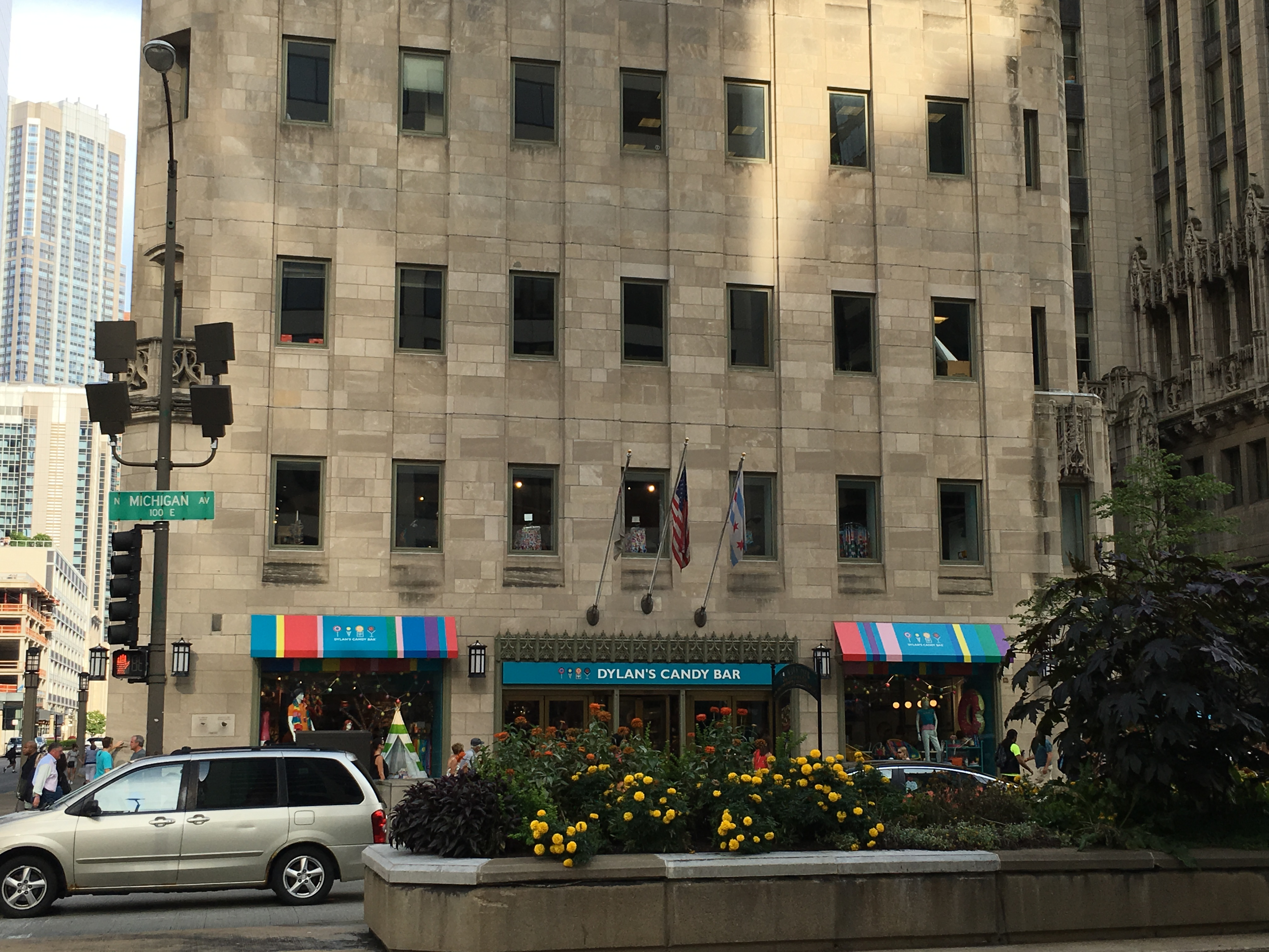 Dylan's Candy Bar in Chicago on the Magnificent Mile.